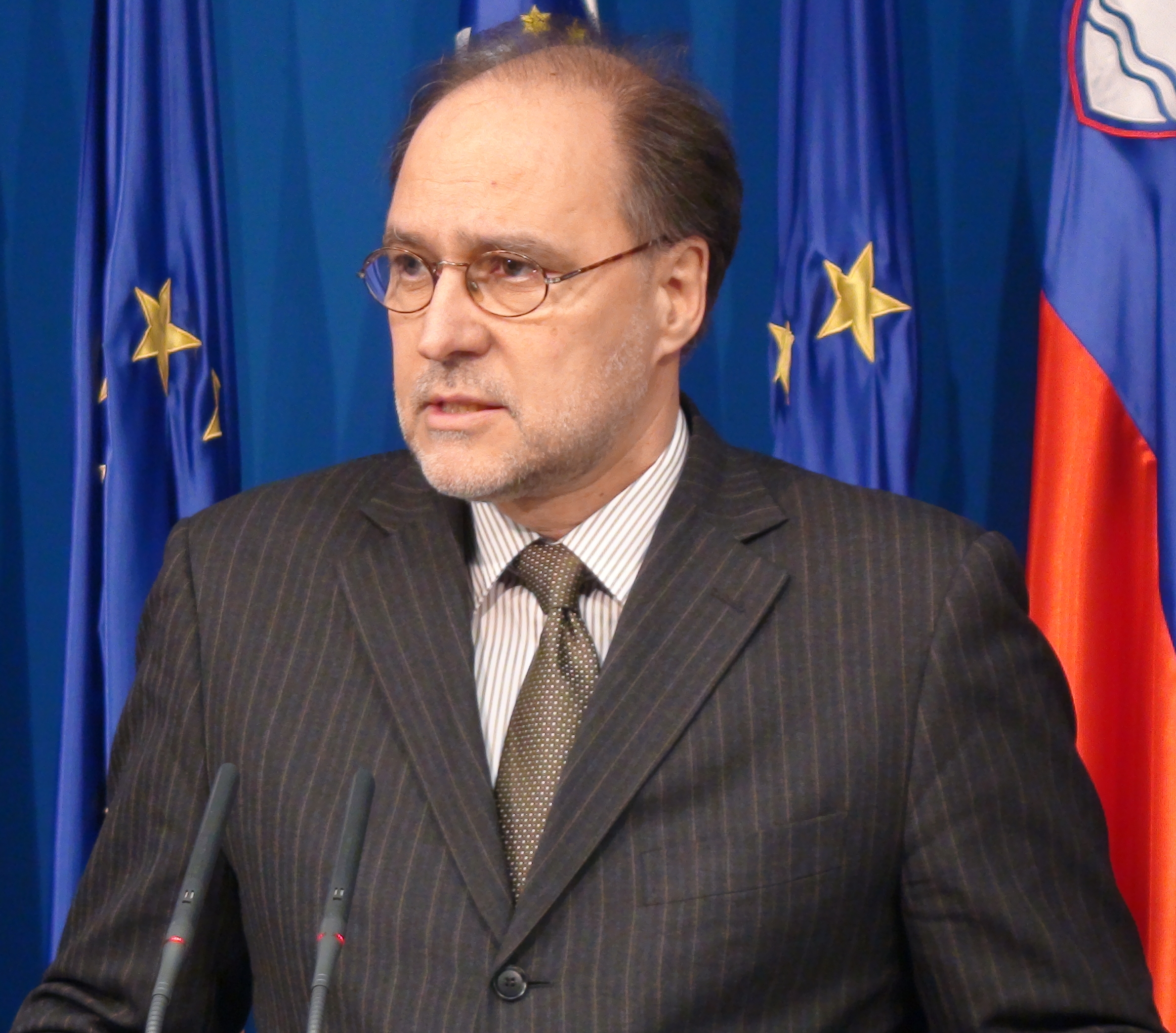 Mitja Gaspari in 2011 cropped